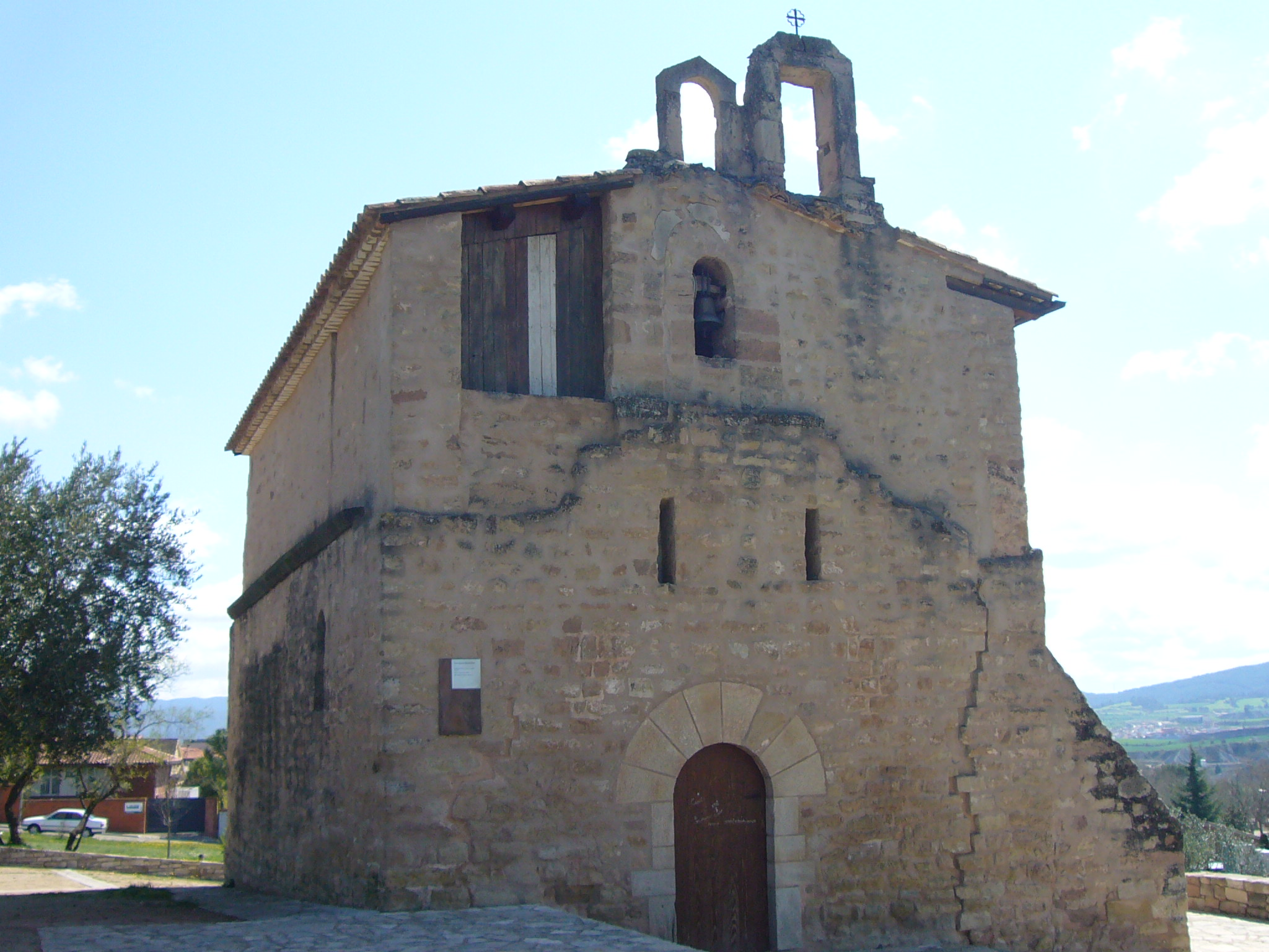 Ermita de Sant Jaume Sesoliveres, Igualada, Catalonia